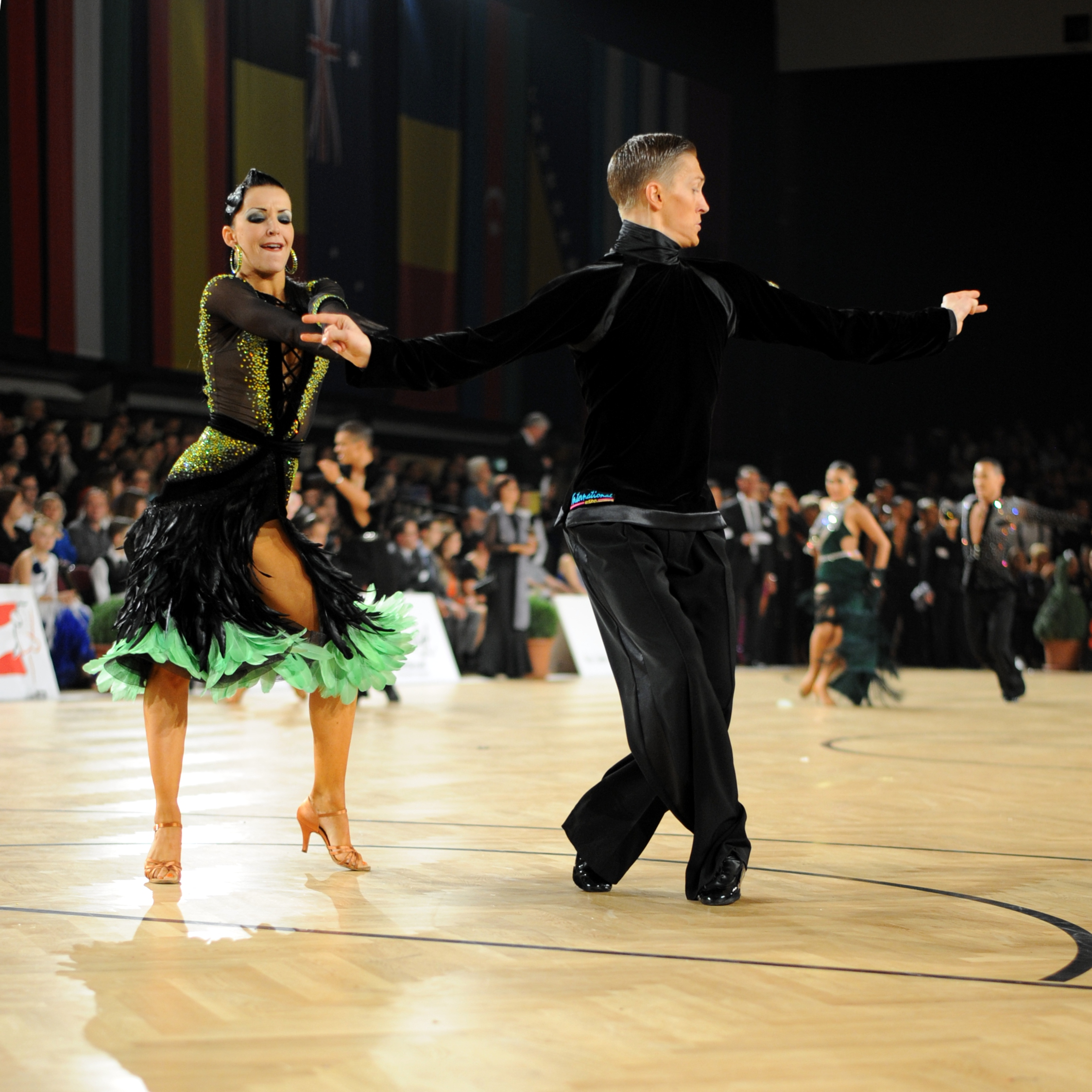 Austrian Open Championships Vienna, 2012 WDSF World Dancesport Championships Latin 16.-18. November 2012 The making of this work was supported by Wikimedia Austria. For other files made with the support of Wikimedia Austria, please see the category Supported by Wikimedia Österreich. Personality rights warningAlthough this work is freely licensed or in the public domain, the person(s) shown may have rights that legally restrict certain re-uses unless those depicted consent to such uses. In these cases, a model release or other evidence of consent could protect you from infringement claims.